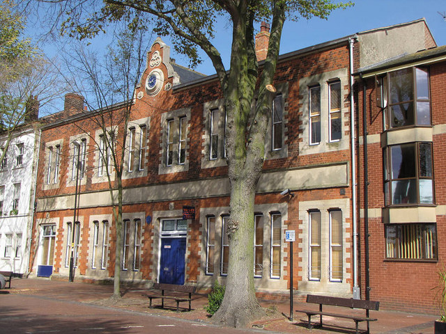 Former Ferry Ticket Office This building housed the ticket office for the Hull to New Holland ferry, operating from Victoria Pier.